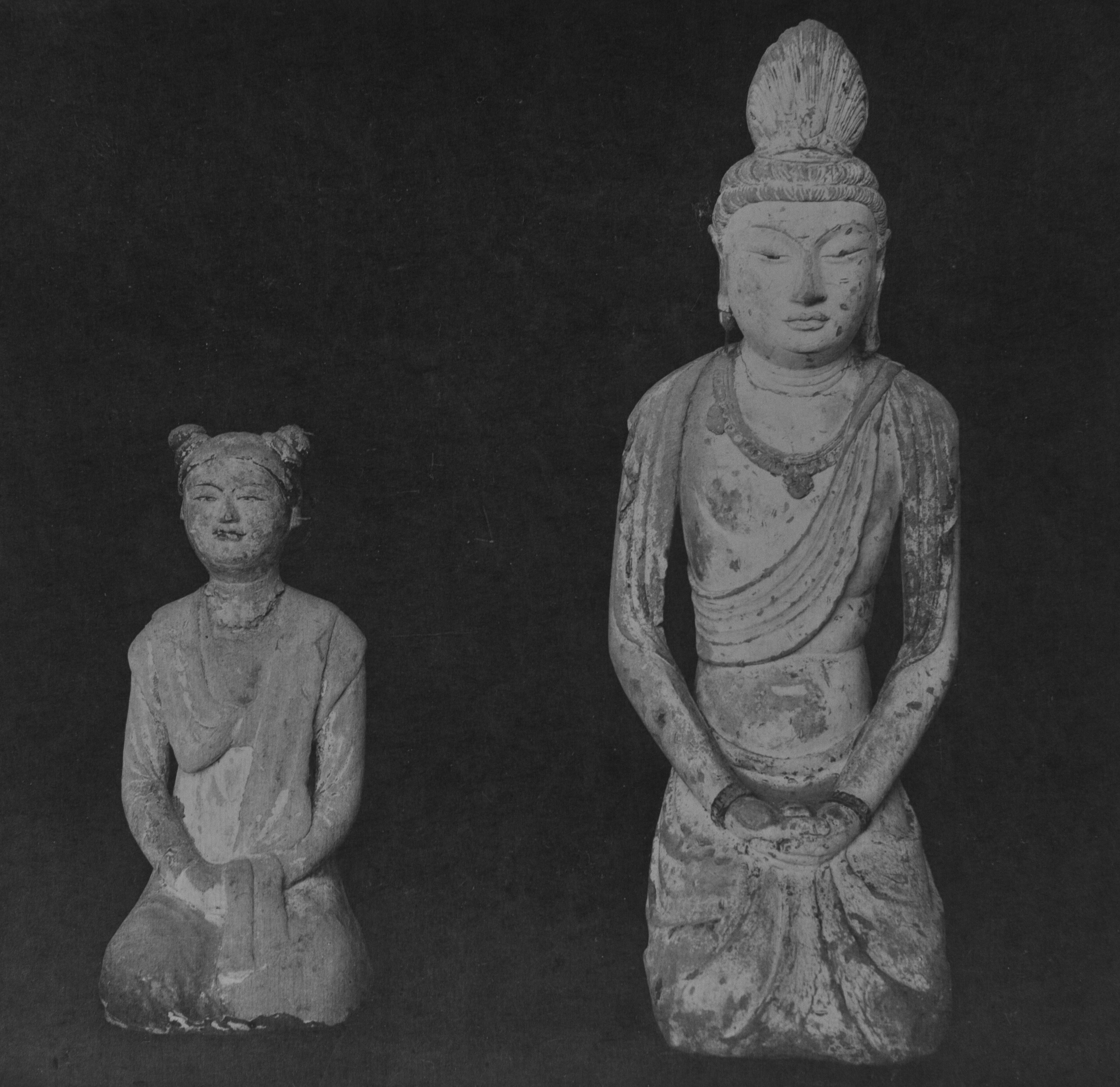 Pagoda, Hōryū-ji, Nara, Japan